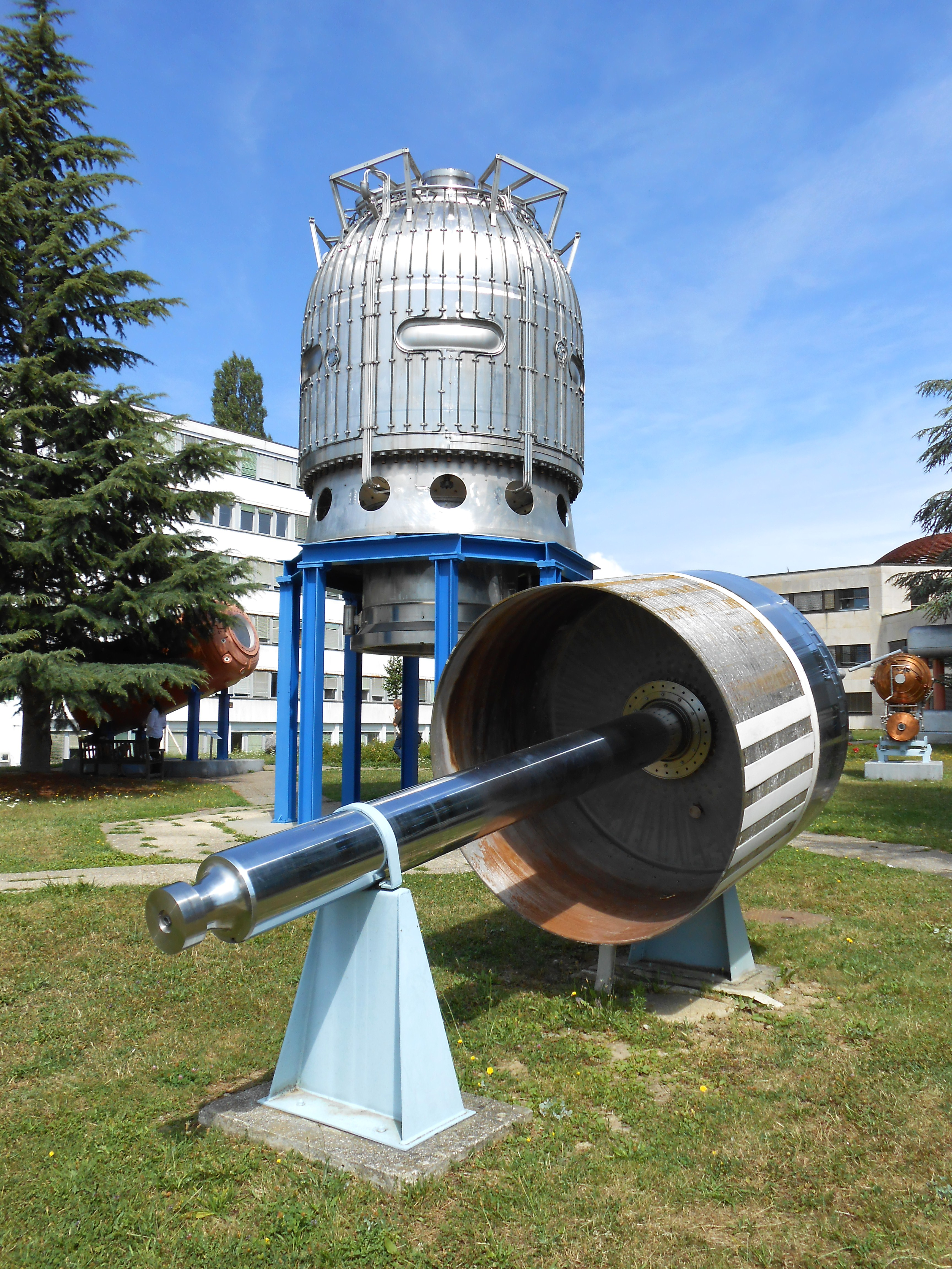 The Big European Bubble Chamber, exposed in the garden of Microcosm at CERN